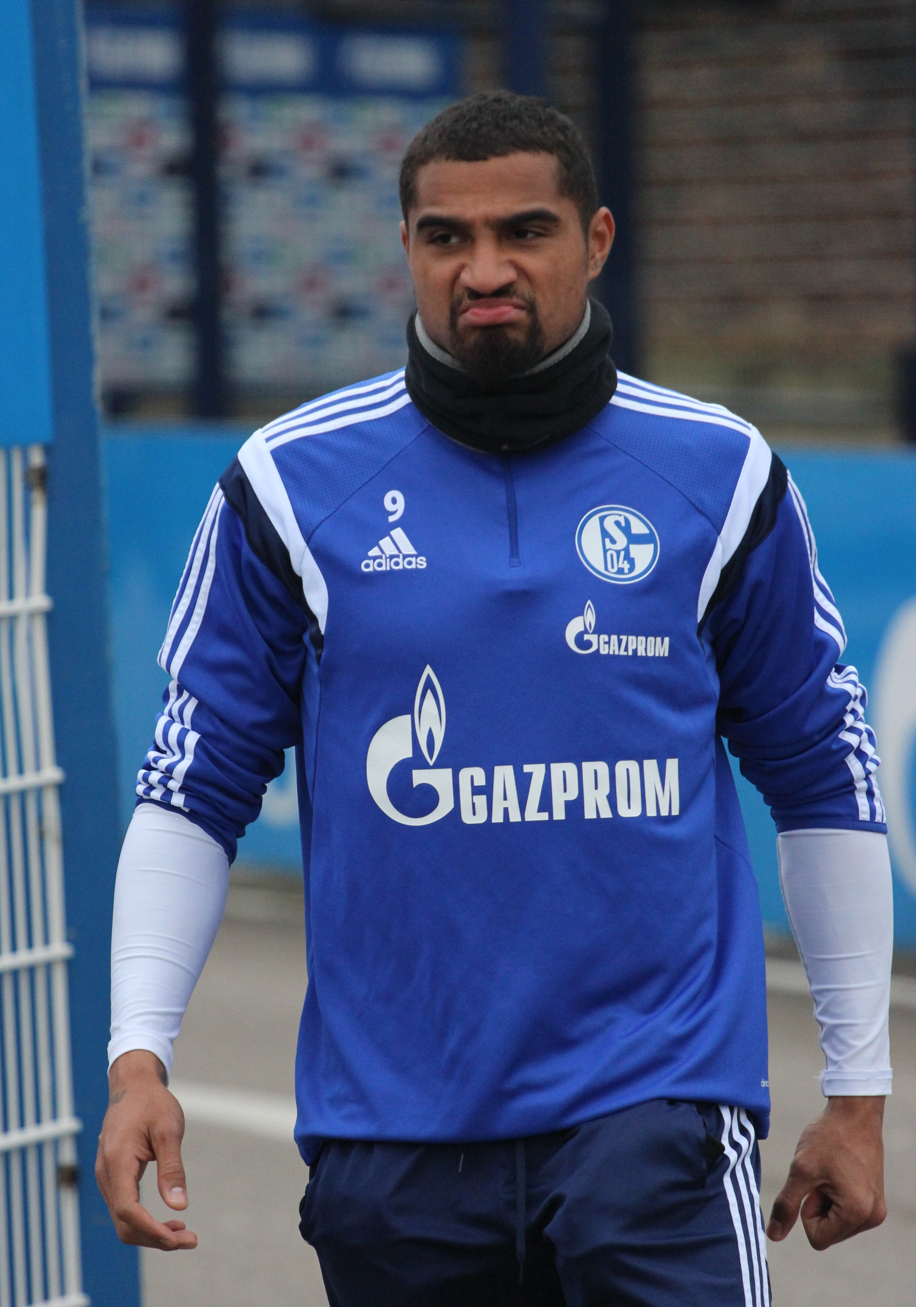 Kevin-Prince Boateng at a Schalke 04 training on 20 January 2015.